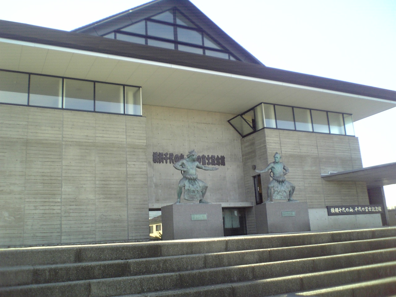 Michinoeki(Roadside Station) Yokozuna no Sato Fukushima & Fukushima Yokozuna Sumo Museum (Fukushima, Hokkaidō)